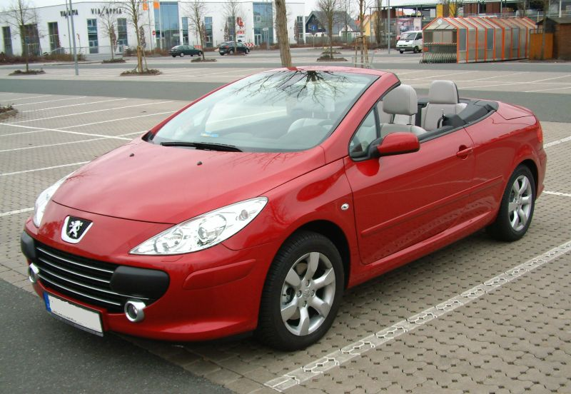 Image of a Peugeot 307cc (Coupe Cabriolet) coloured in babylon red with light grey leather seats Bild eines Peugeot 307cc in der Farbe Babylonrot mit hellgrauen Lamaleder - Sitzen.